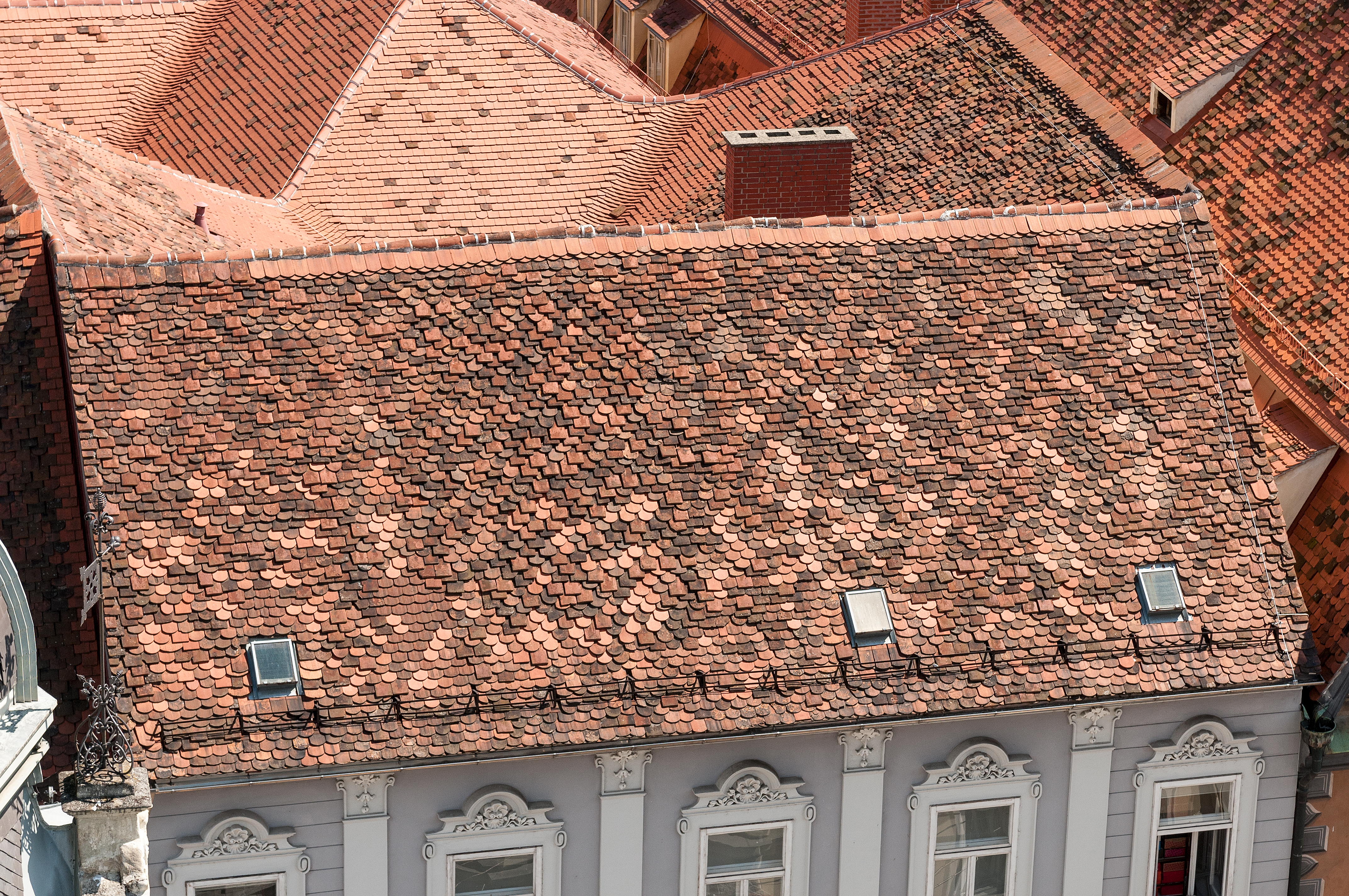 View from the spire Rathaus Graz; Beavertail roof